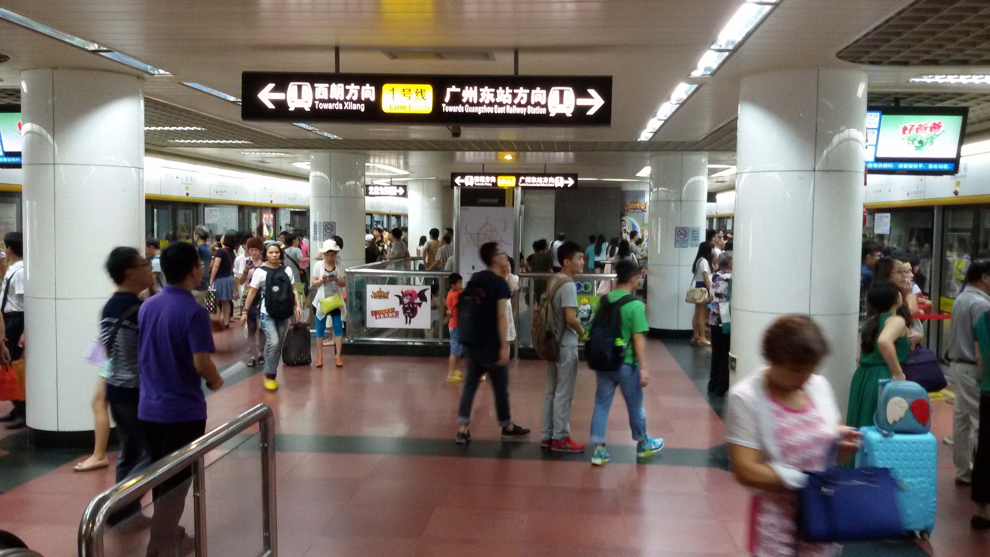 z